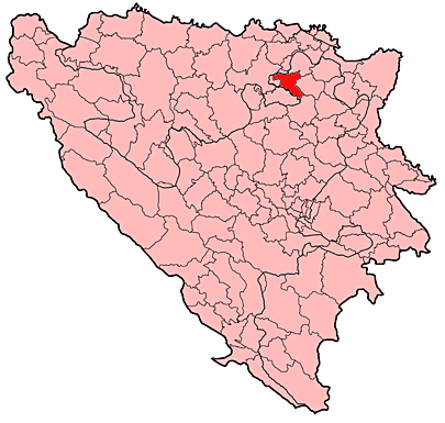 Population of Gracanica: 15 758 people Latitude of Gracanica: 44,7033 (44°42'11.880"N) Longitude of Gracanica: 18,3097 (18°18'34.920"E) Altitude of Gracanica: 277 m